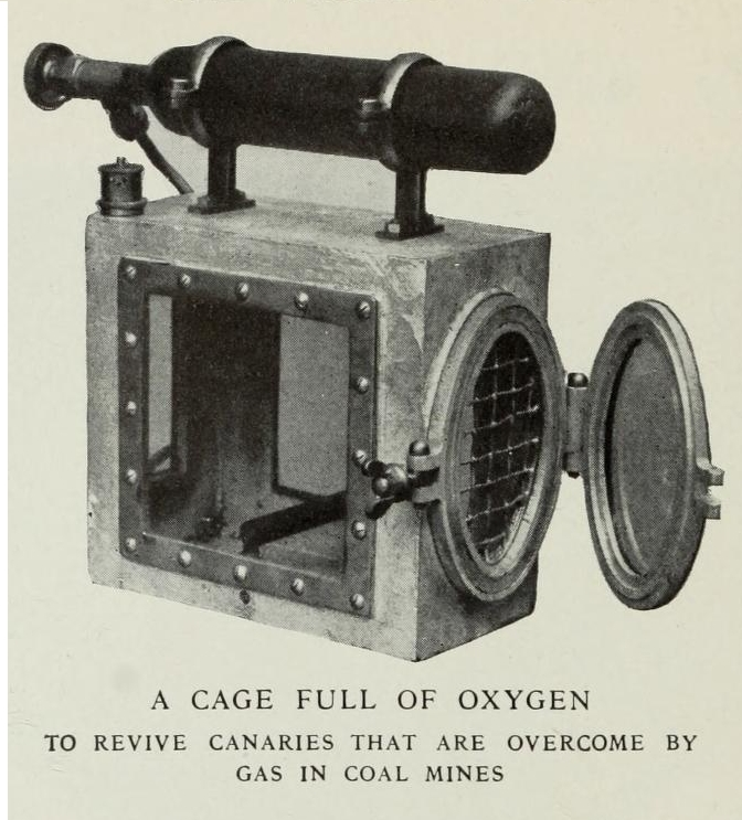 Canary revival cage with oxygen cylinder as handle